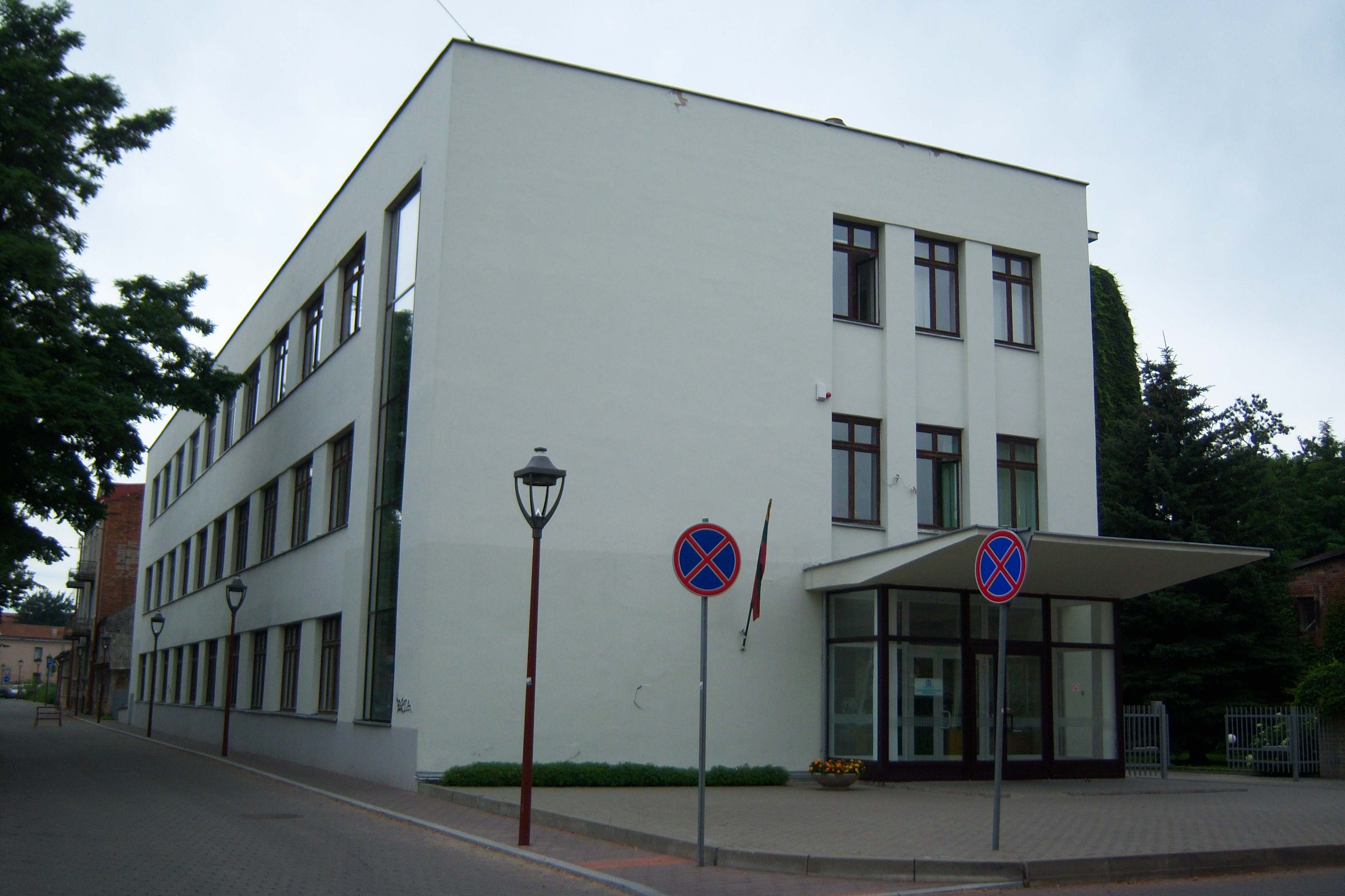 Kaunas College, Lithuania